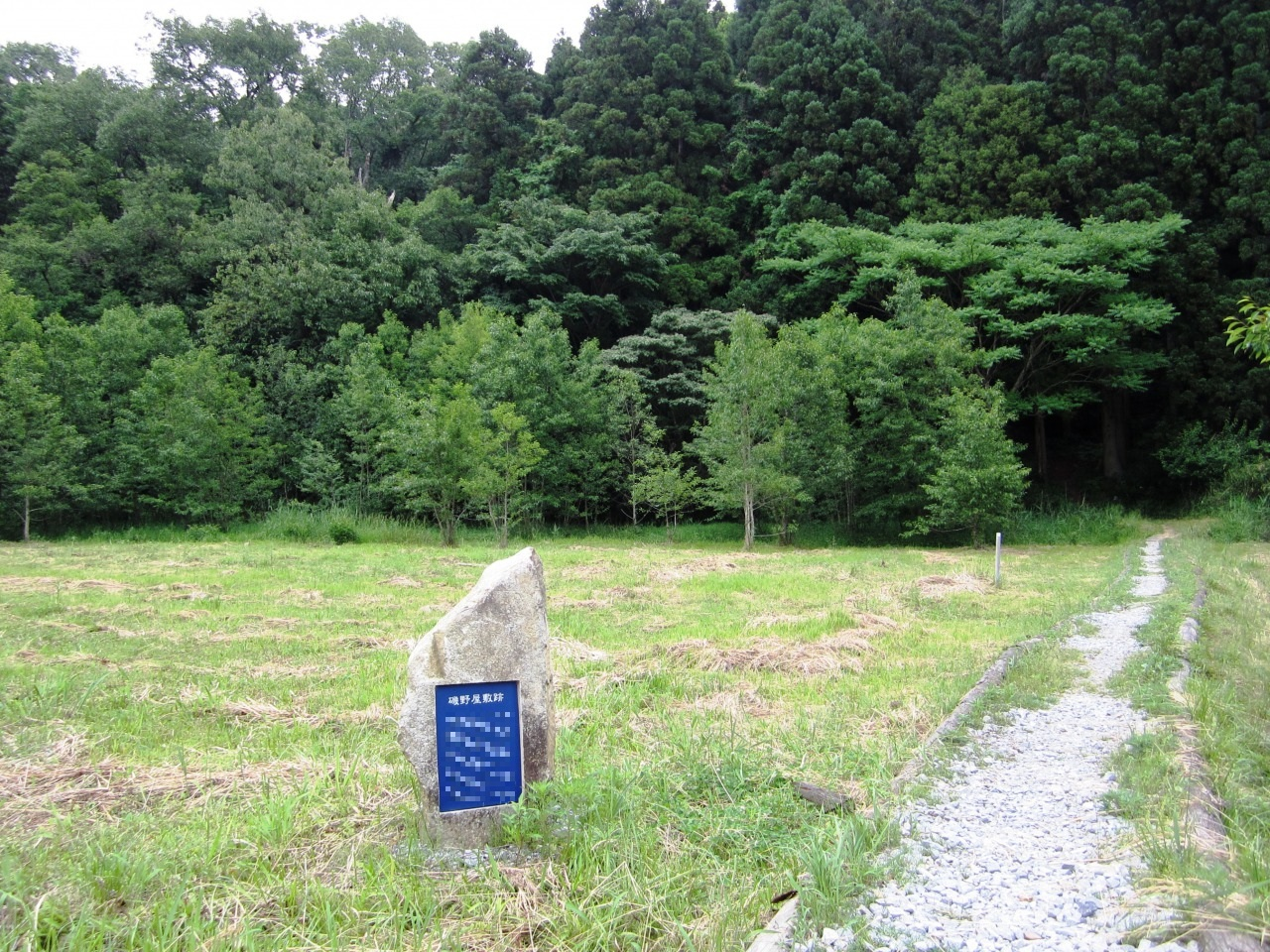 Isono Kazumasa 's residence in Nagahama, Shiga.